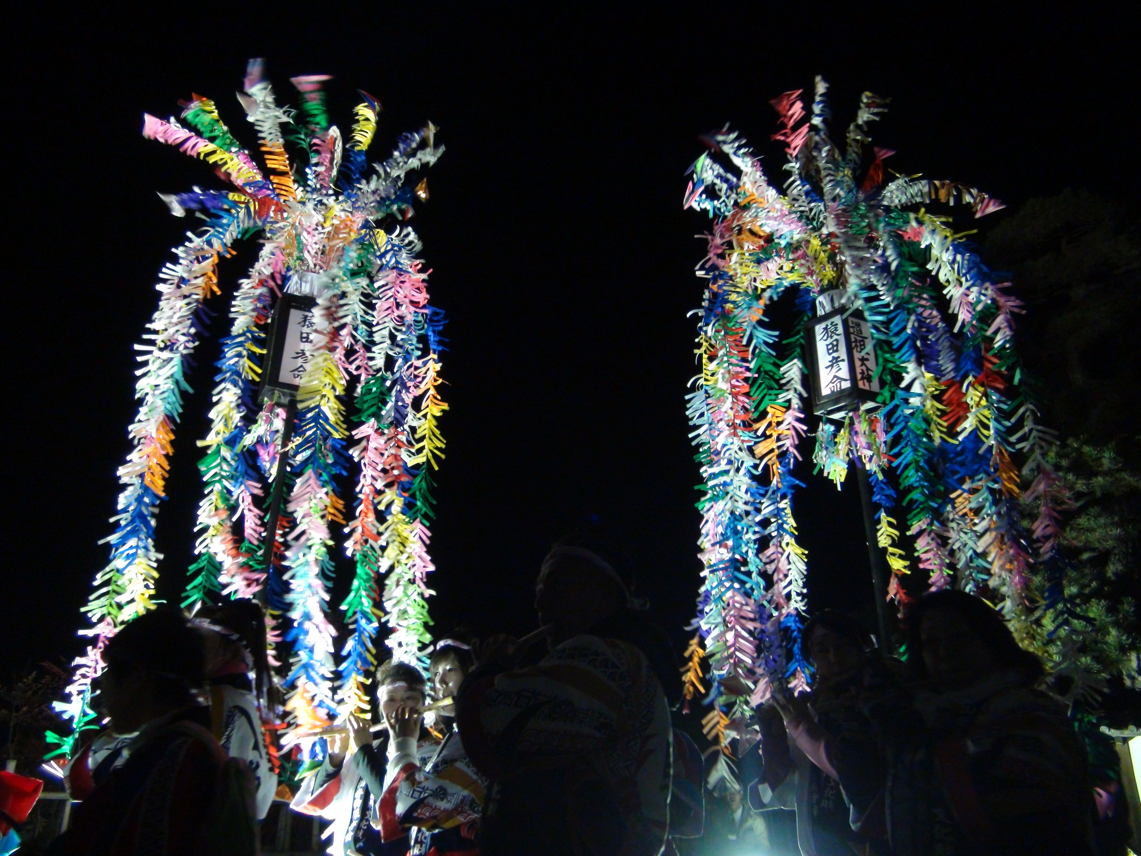 Ichinose Takahashi no Harukoma Ornament of traditional festivals